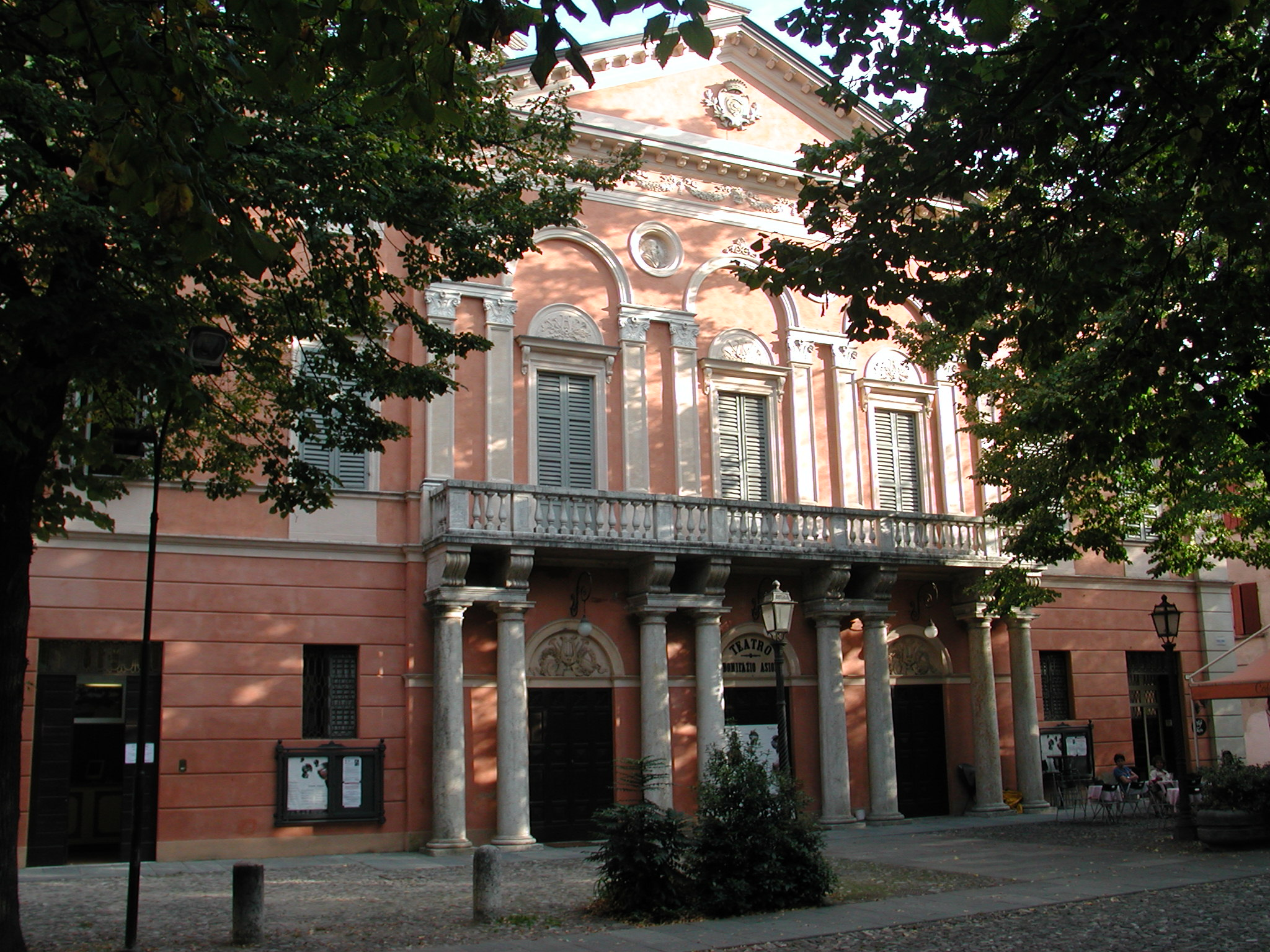 Correggio (Italy) a town near Reggio Emilia, Italy